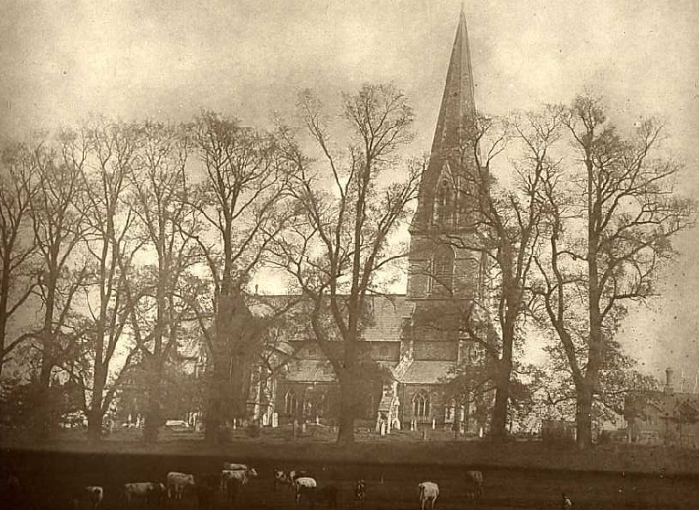 A picture of Christ Church from the 1880s.